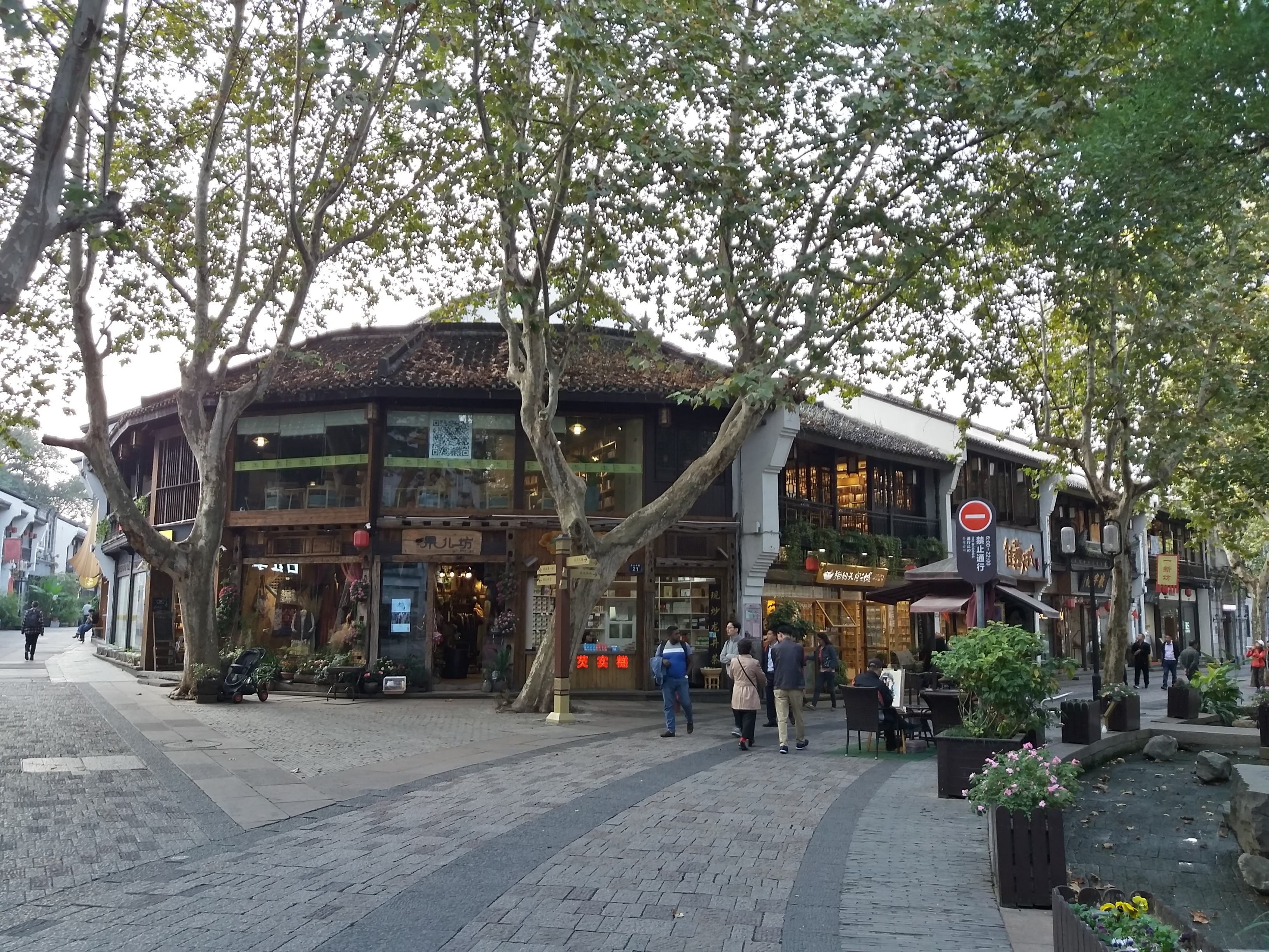 Southern Song Imperial Street, Hangzhou